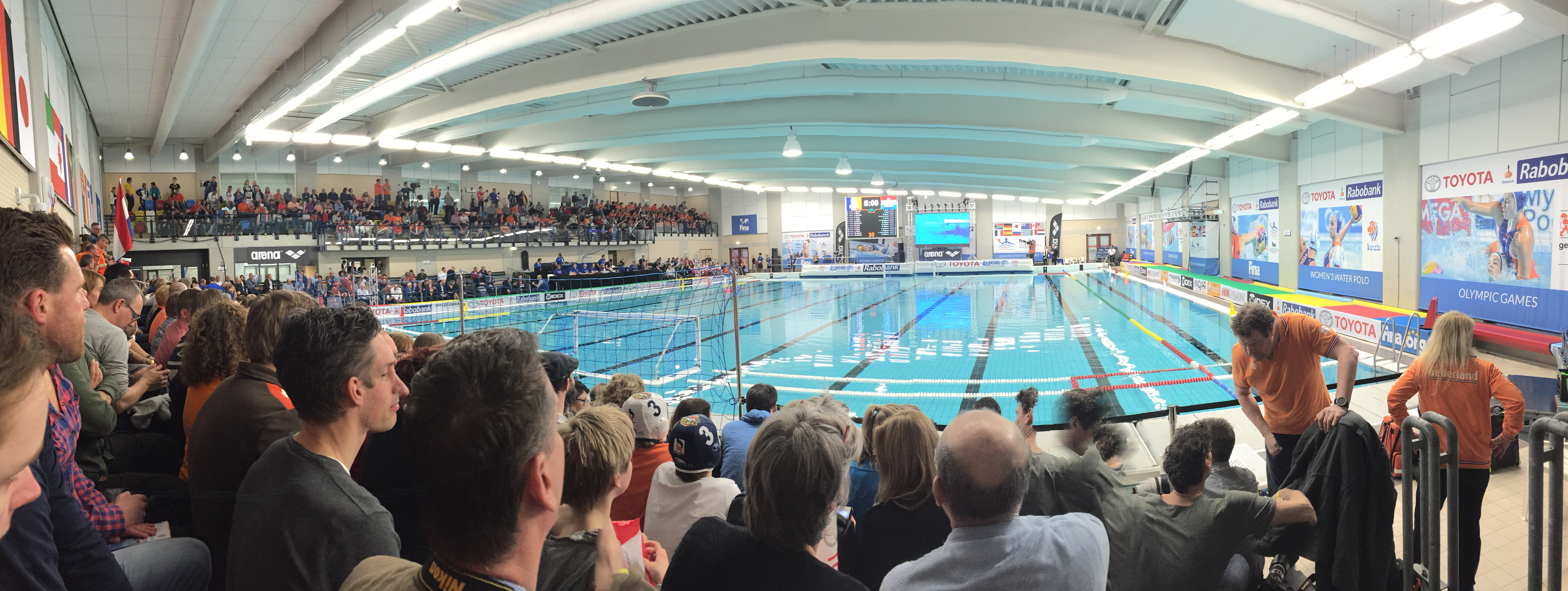 2016 Water Polo Olympic Qialification tournament Panaroma